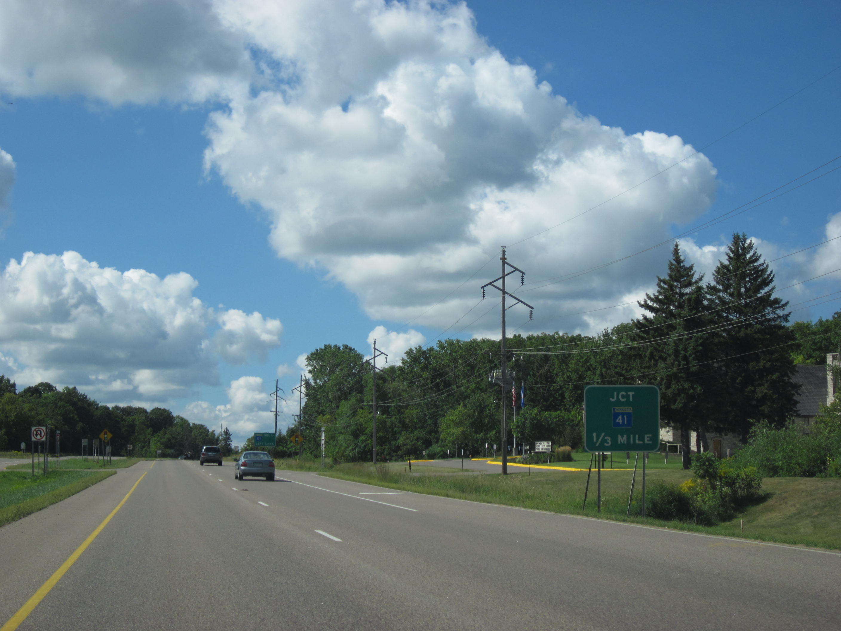 Minnesota State Highway 7 approaching the intersection with Minnesota State Highway 41 in Shorewood, Minnesota